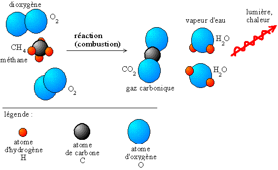 Combustion of methane in dioxygen, drawn with a vector graphics software.